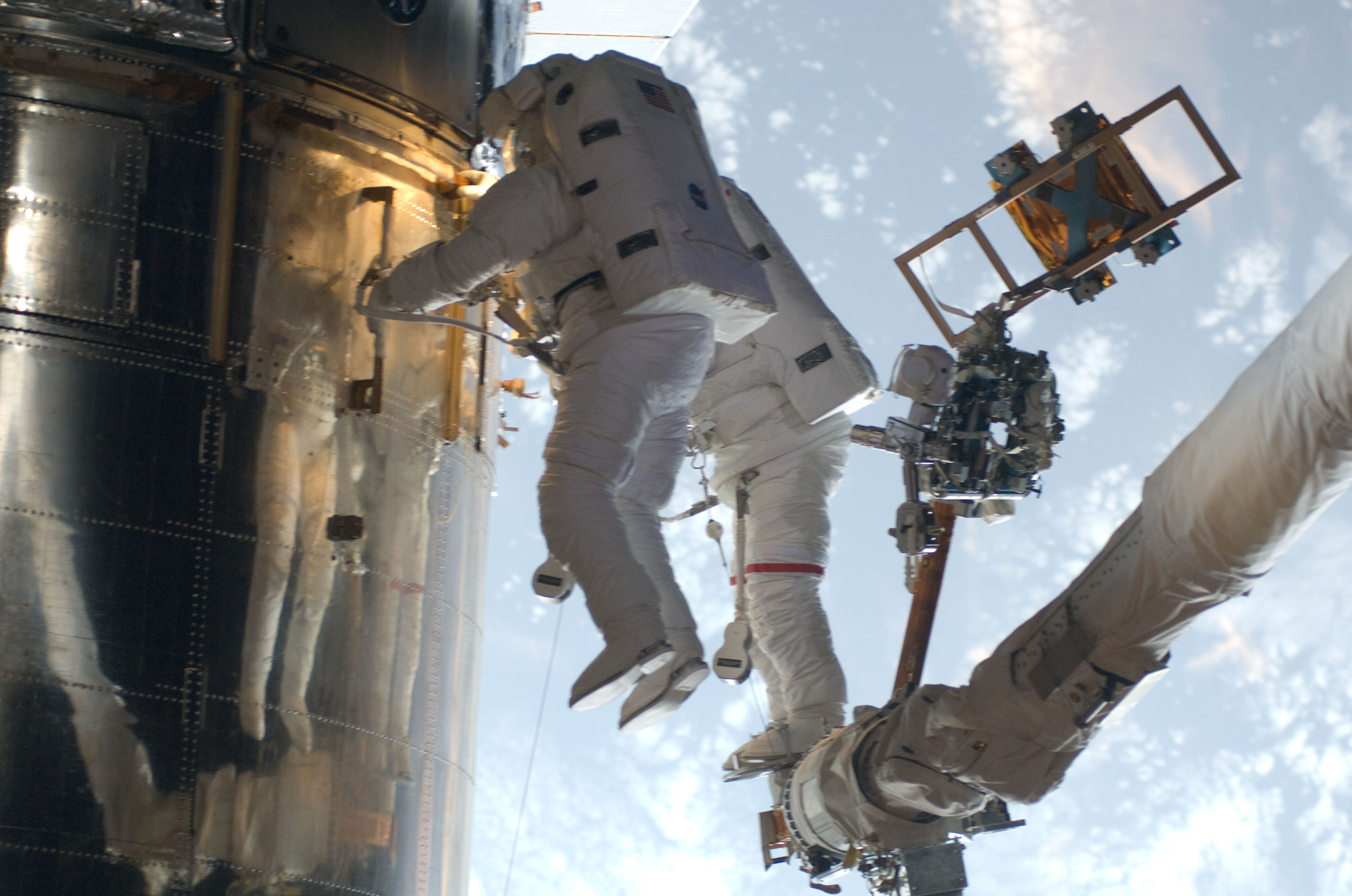 Astronaut John Grunsfeld, STS-125 mission specialist, positioned on a foot restraint on the end of Atlantis' remote manipulator system (RMS), and astronaut Andrew Feustel (foreground), mission specialist, participate in the mission's fifth and final session of extravehicular activity (EVA) as work continues to refurbish and upgrade the Hubble Space Telescope. During the seven-hour and two-minute spacewalk, Grunsfeld and Feustel installed a battery group replacement, removed and replaced a Fine Guidance Sensor and three thermal blankets (NOBL) protecting Hubble's electronics.